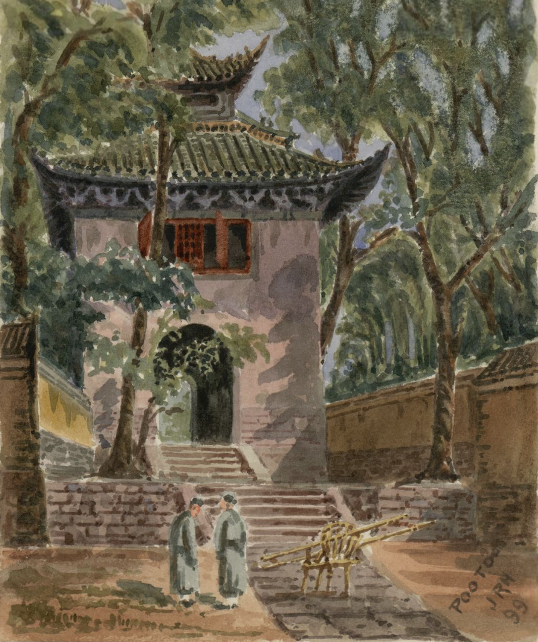 A volume of drawings of the Far East.